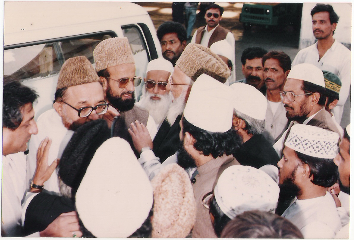 Hanif Tayyab, Munib-ur-Rehman, Naimatullah and various other scholars.